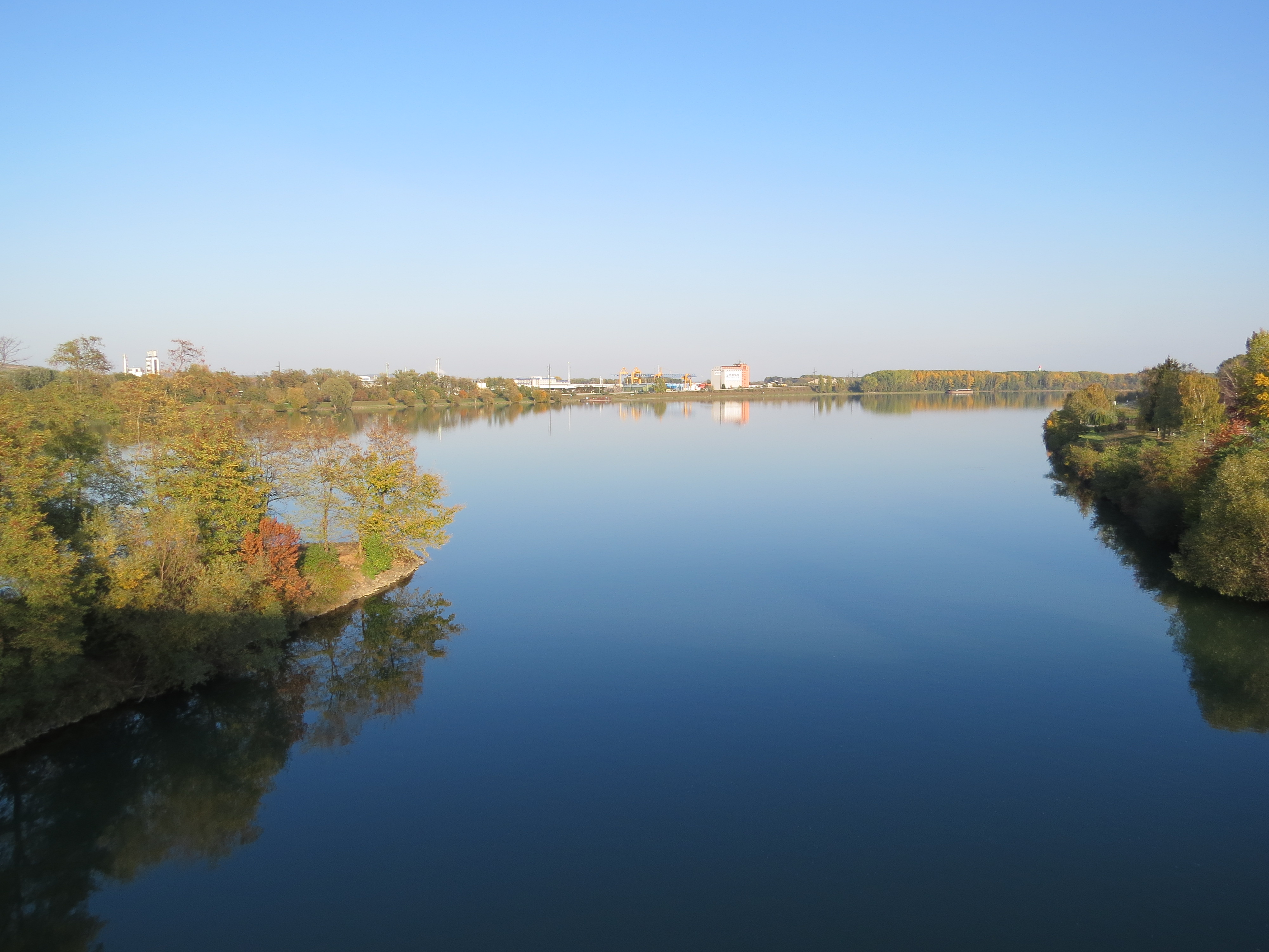 View from bridge to the Danube at Krems an der Donau, Austria